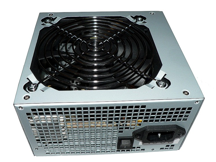 ATX power supply